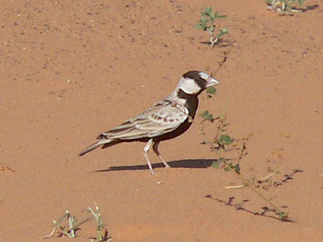 Cropped version of File:Black-crowned Sparrow Lark Mauritania.jpg